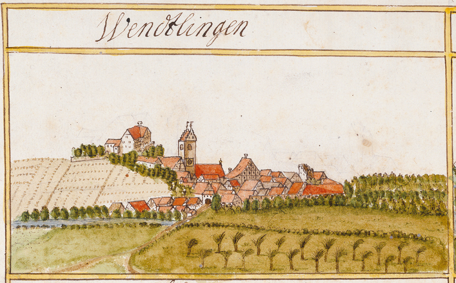 View of Wendlingen am Neckar from the forest register books created by Andreas Kieser